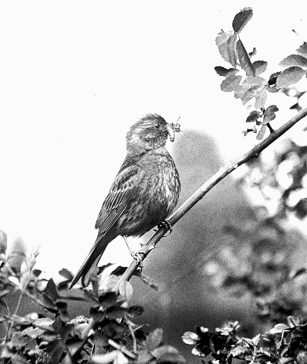 Bird with insect in beak in bush, from Sir Thomas Lewis archive Archives & Manuscripts Keywords: Thomas Lewis